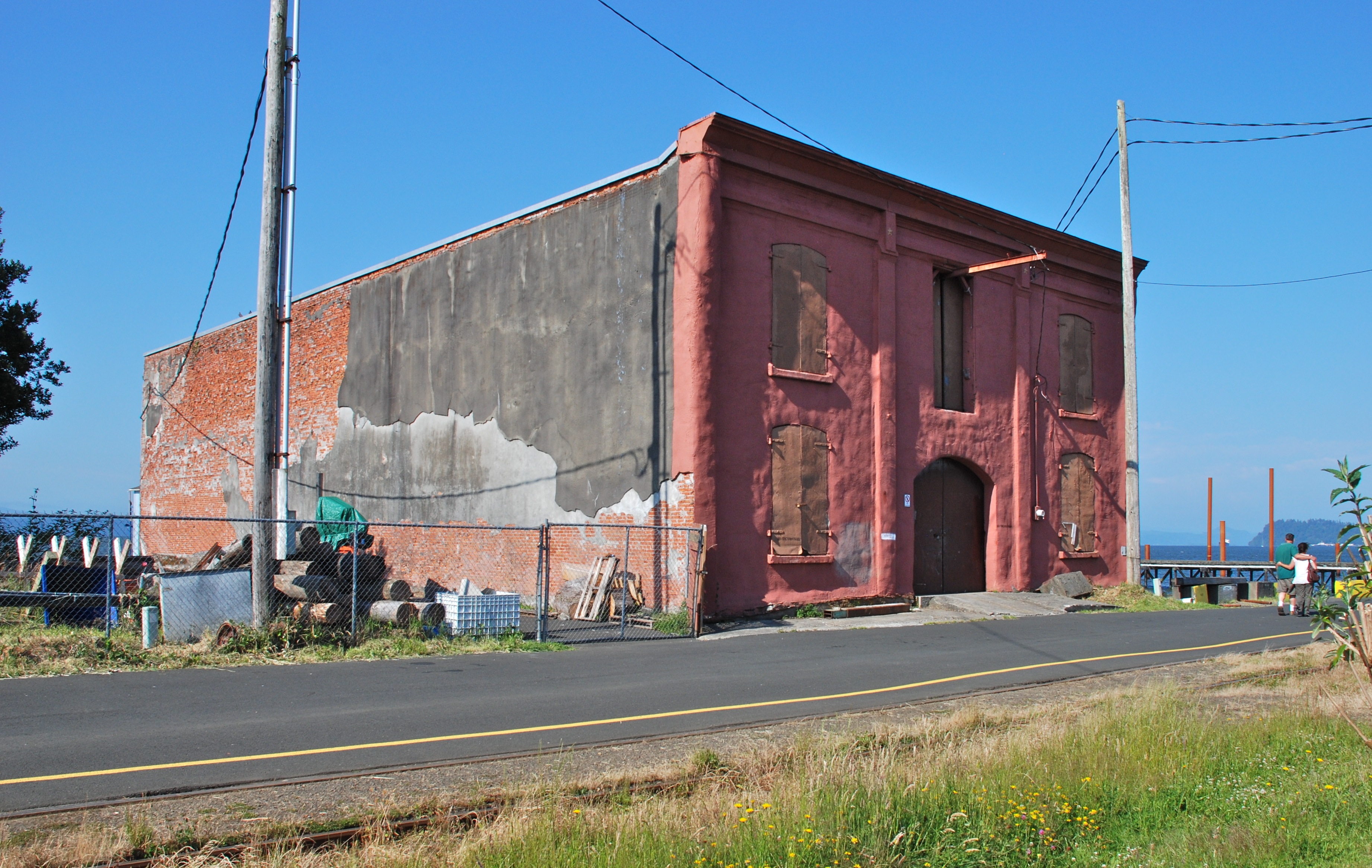 The Astoria Wharf & Warehouse Company building is located on the waterfront between 3rd and 4th Streets in Astoria, Oregon. Built in 1892), it is listed on the U.S. National Register of Historic Places. In the foreground are the Astoria Riverwalk (walking and bike path) and the ex-Burlington Northern track now used by the Astoria Riverfront Trolley.